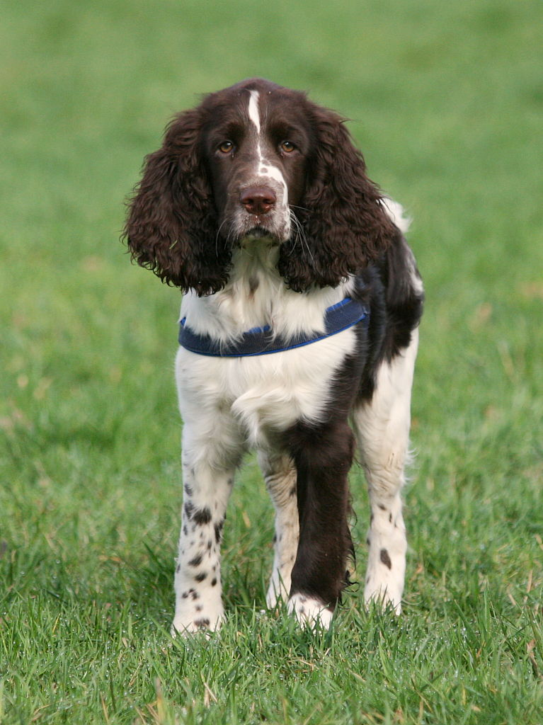 Coffee, English-Springer-Spaniel, 8 Months